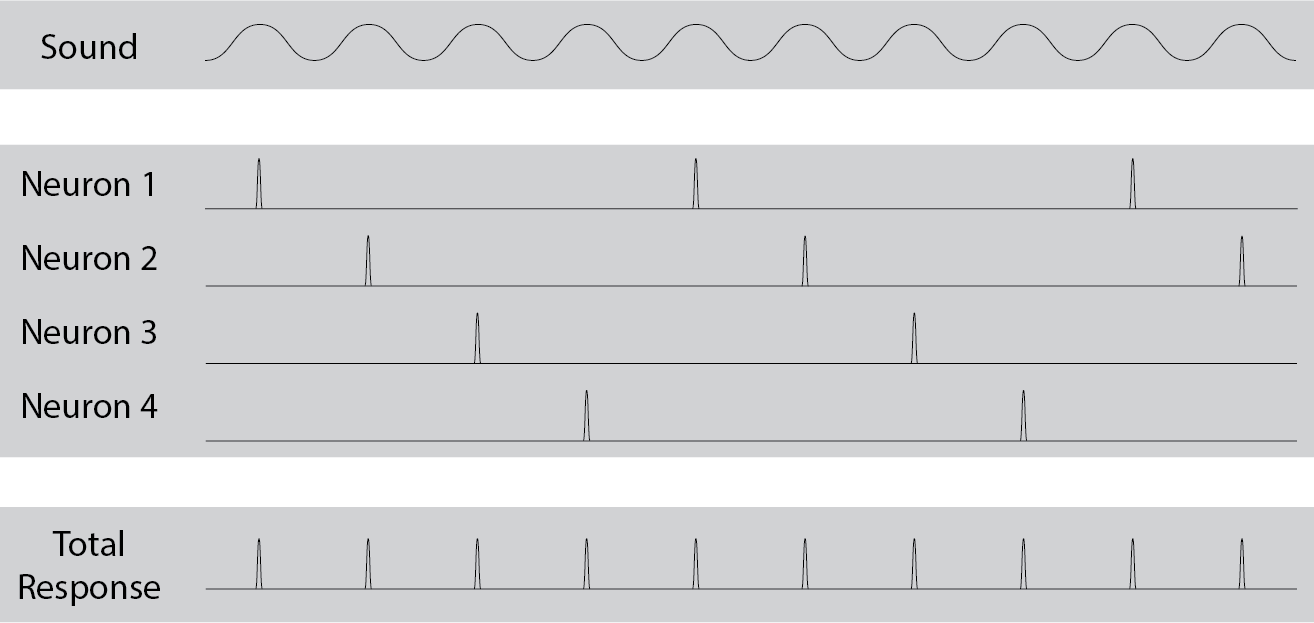 Volley Principle or Theory of Hearing